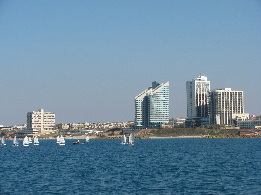 Against the wind surfers on the beach Herzliya hotels